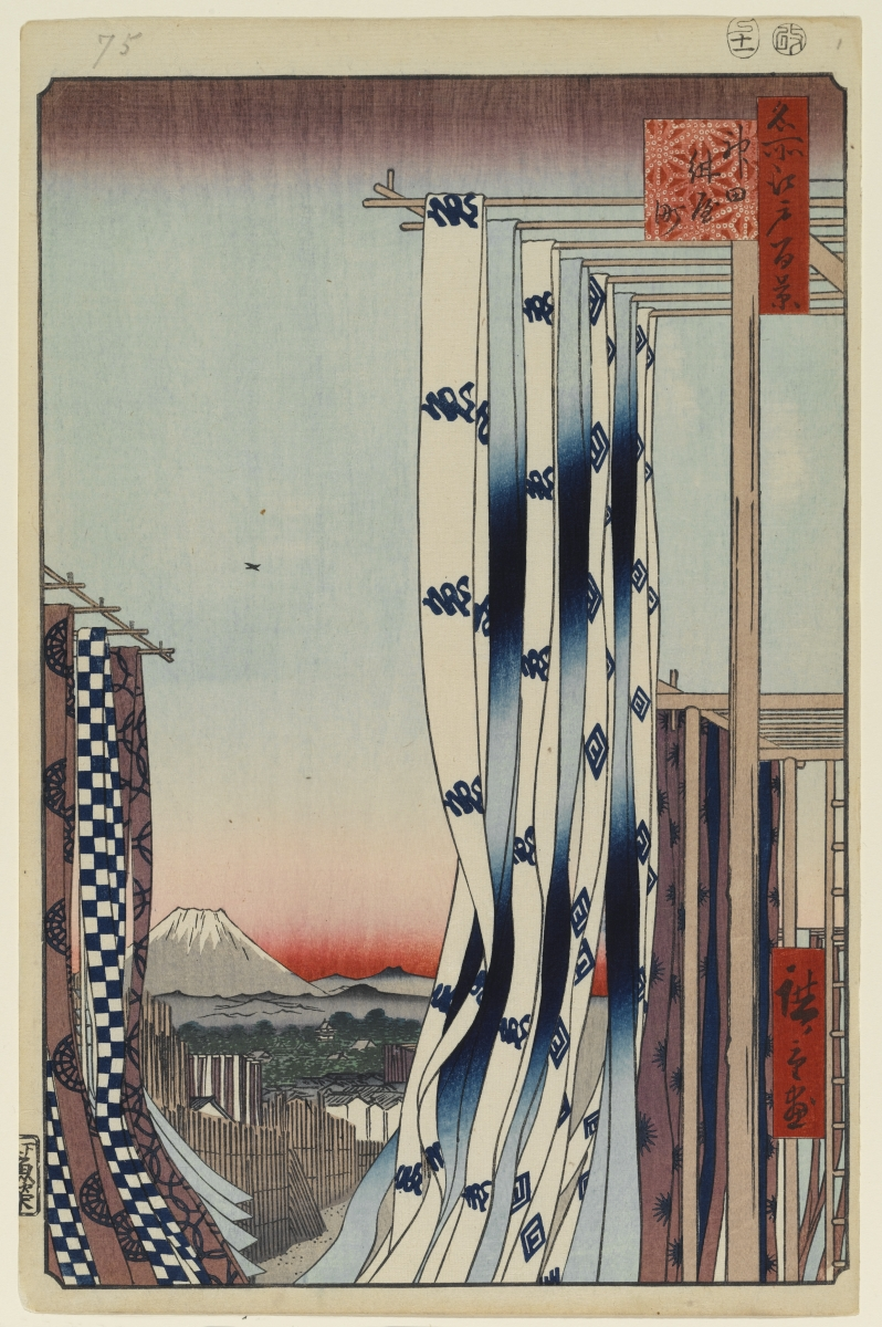 Part of the series One Hundred Famous Views of Edo, no. 075, part 3: Autumn.